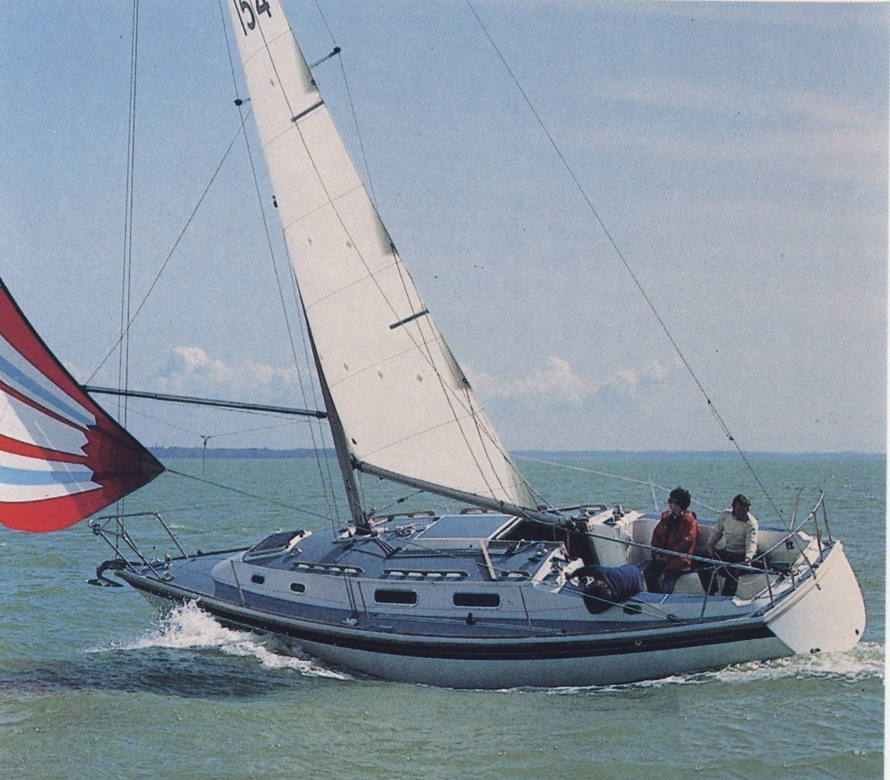 Westerly Fulmar